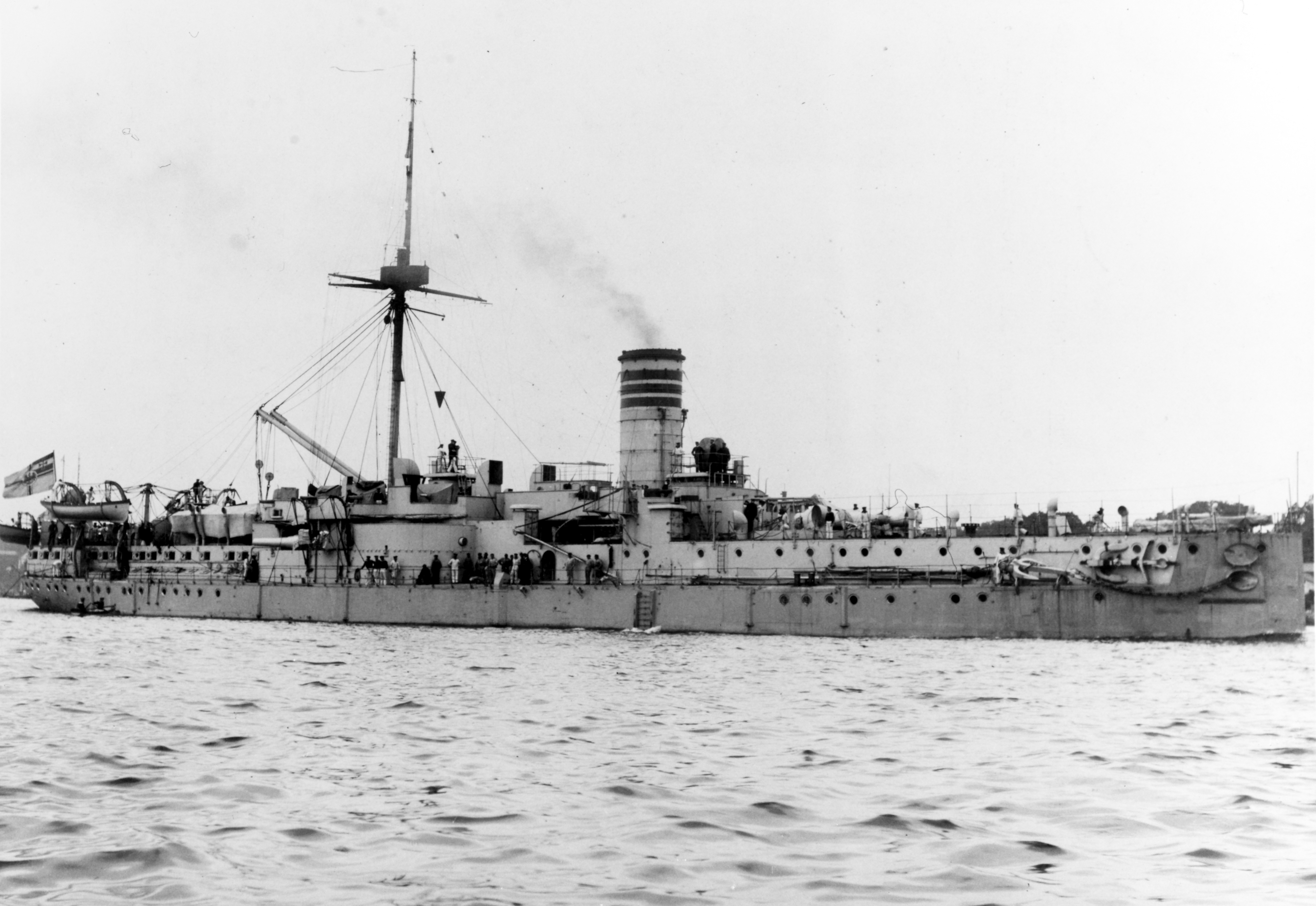 Title: WURTTEMBERG (German battleship, 1878-1920) Caption: Photo by Arthur Renard, Kiel, 1899, taken after reconstruction of 1898-1899.